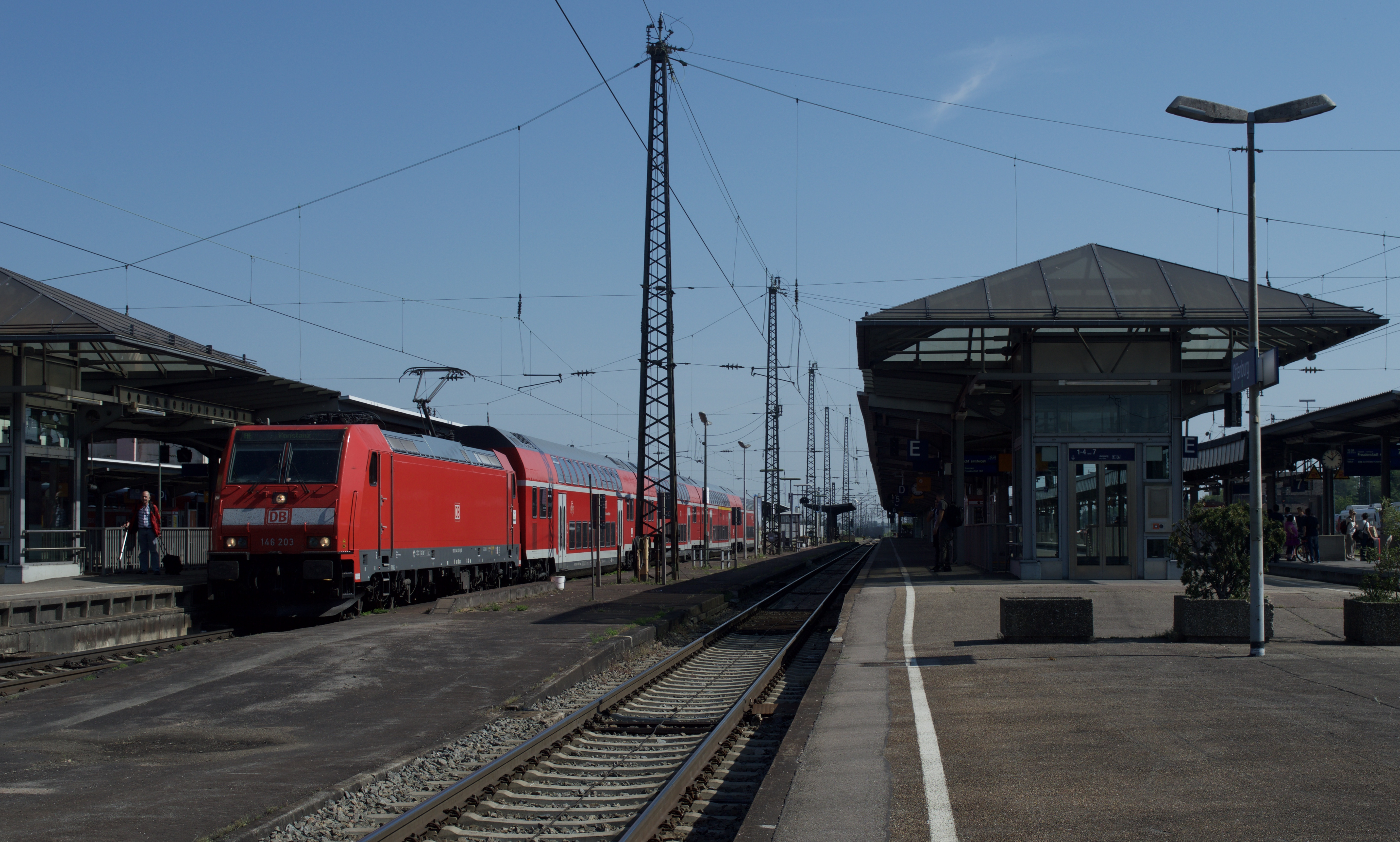 146.203 at Offenburg on 29 May 2017 with train RE4719, 09:09 Karlsruhe Hbf to Konstanz.